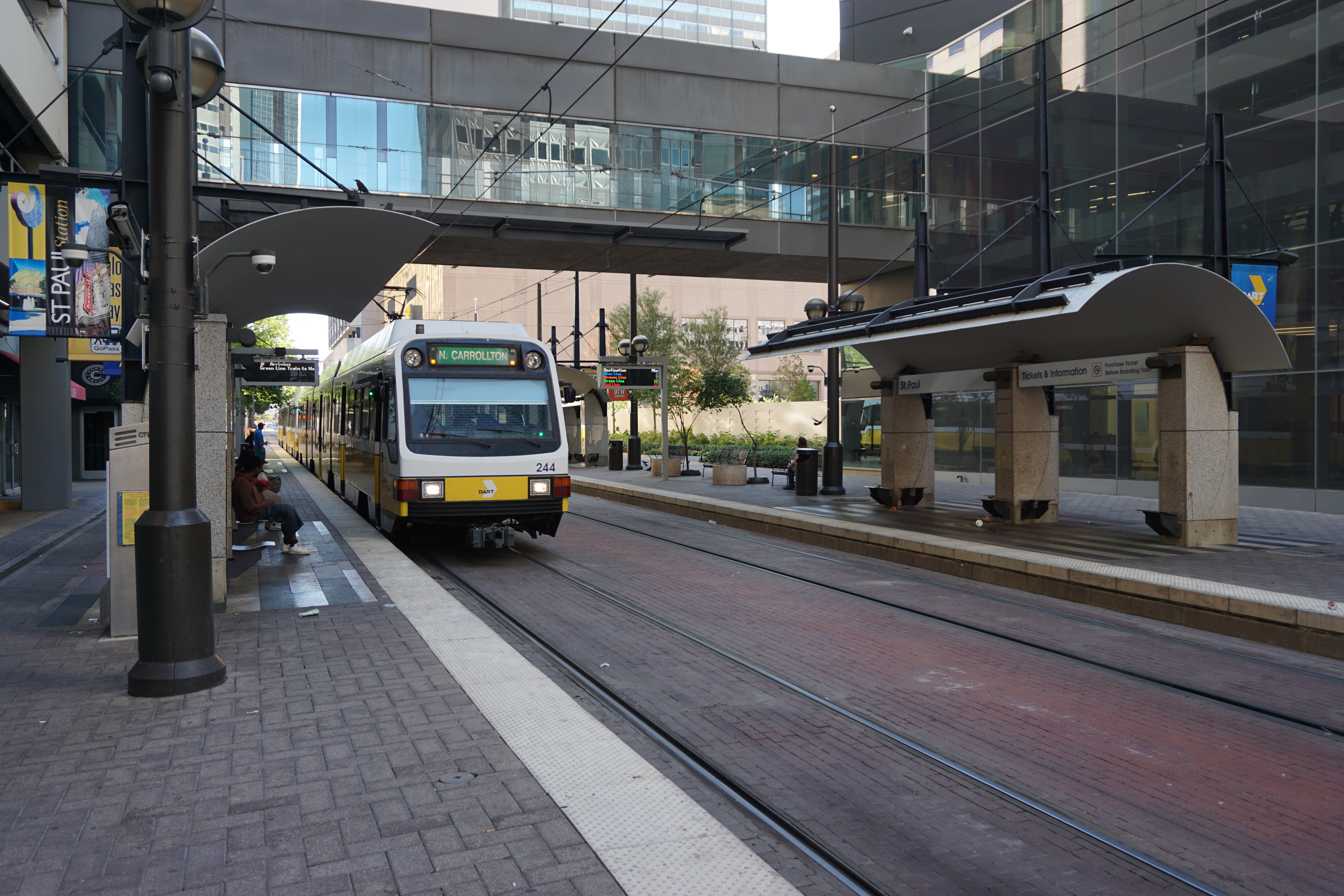 A DART Light Rail Green Line train at St. Paul Station in Dallas, Texas (United States).